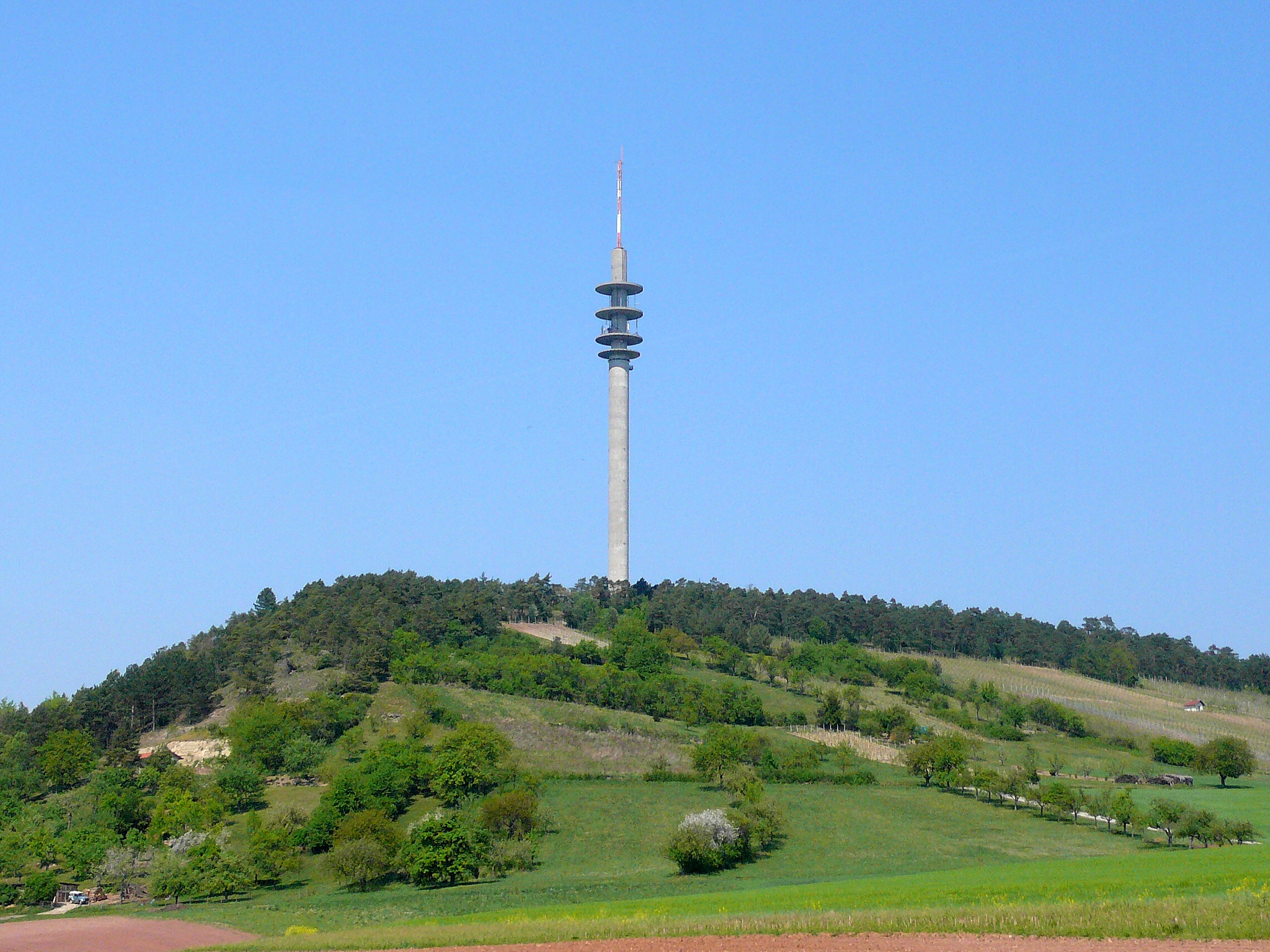 Satellite ground station Fuchsstadt, Germany, transmitter mast